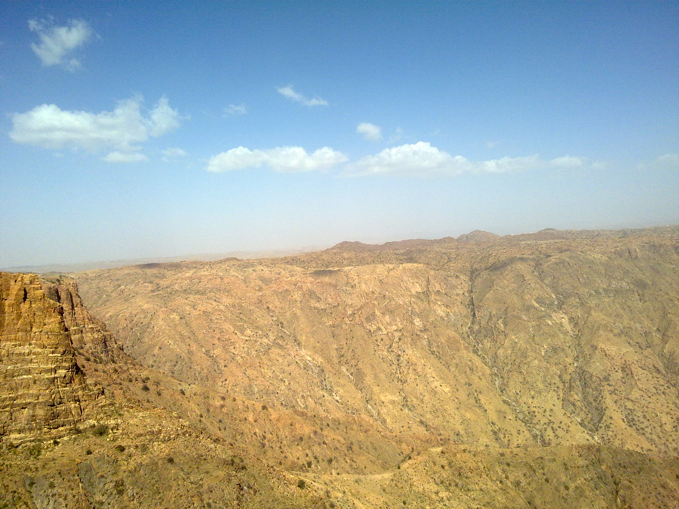 Landscape from the mountains in the Asir region